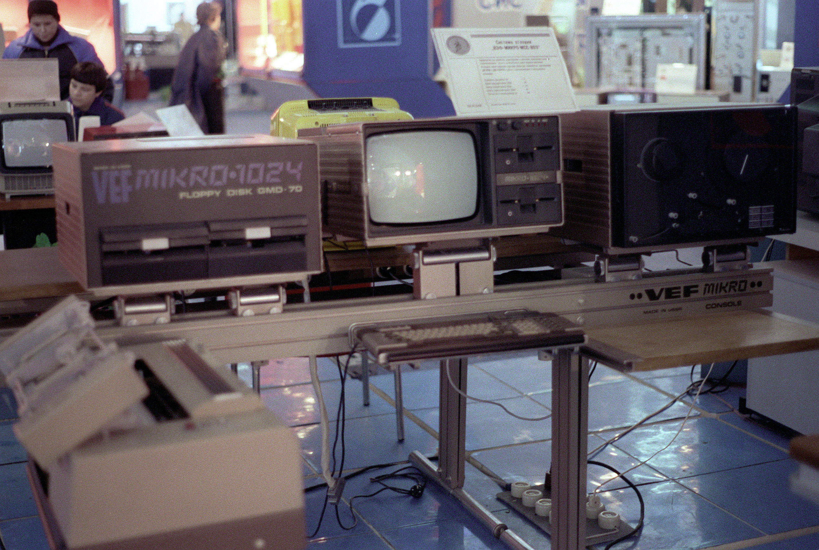 A view of a VEF-MIKRO 1024 personal computer with disk drive on display at one of the pavilions at the Exhibition of Achievements of the National Economy in 1985.